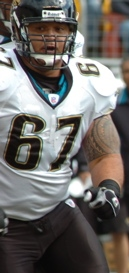 Jacksonville Jaguars offensive guard Vince Manuwai in 2005.